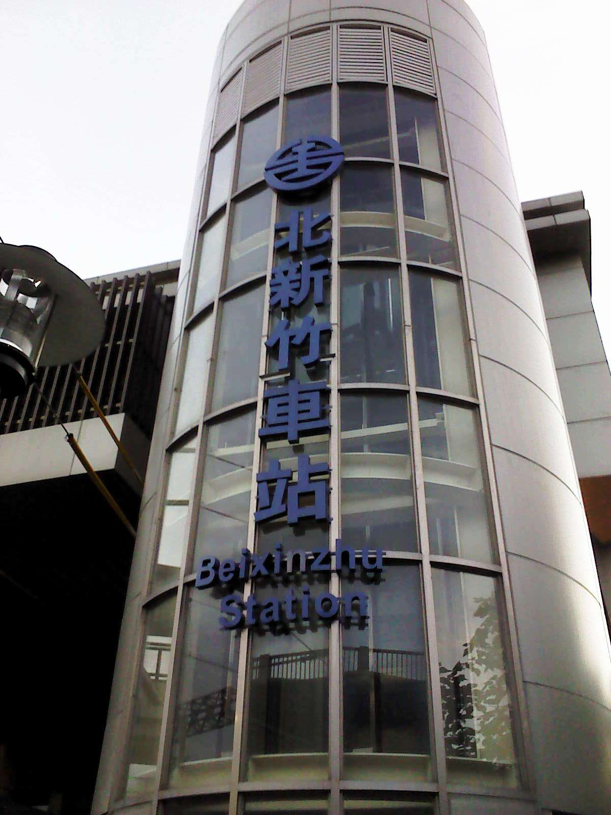 Logo of Beixinzhu Station